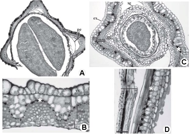 Morfoanatomy of fruits of Bidens gardneri (A-B) and Bidens pilosa (C-D)